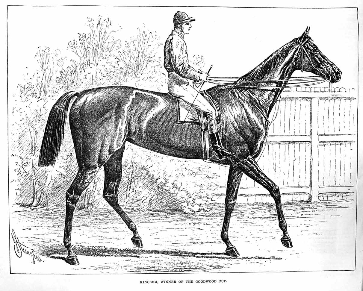 KINCSEM’s victory in the 1878 Goodwood Cup is reported in the Illustrated London News on August 10, 1878. The drawing depicts a much livelier mare than reports of her appearance as she went down to the start suggest.